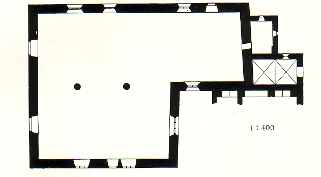 Former monastery Segenstal and Saint Stephen's church in Vlotho, Kreis Herford, Nordrhein-Westfalen.